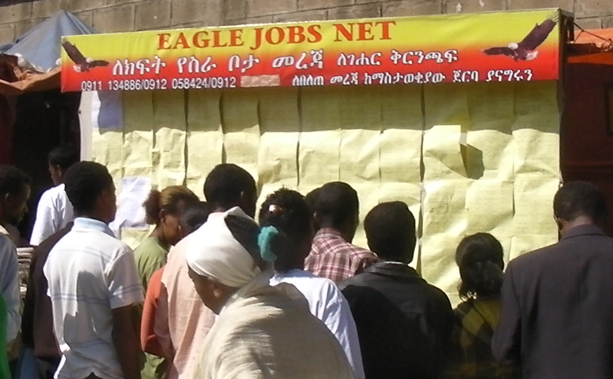 Job seekers in central Addis Ababa, Ethiopia review advertised opportunities.